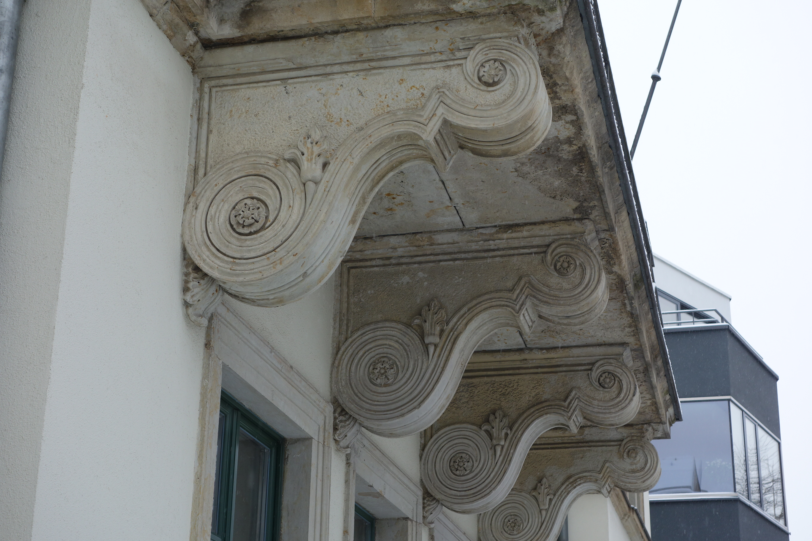 Corbel supported balcony in Pirna, Germany